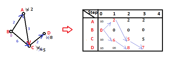 Bước 3